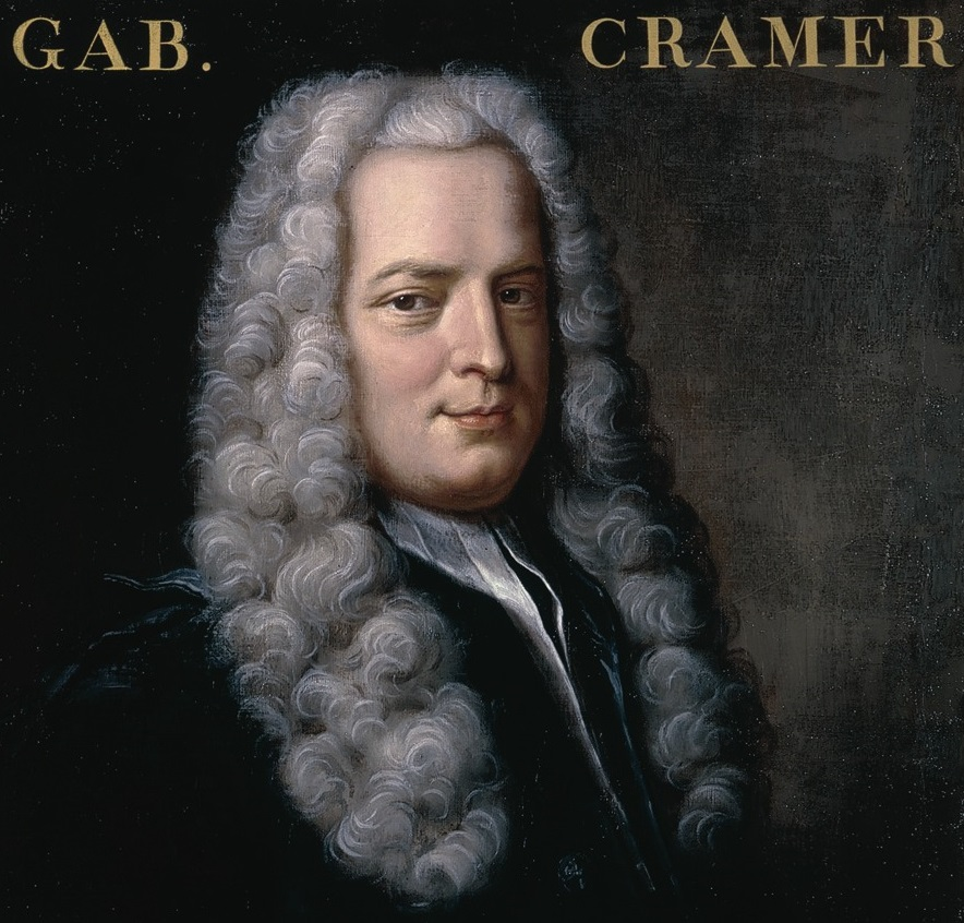 Portrait of the mathematician Gabriel Cramer (1704-1752) by an unknown artist.